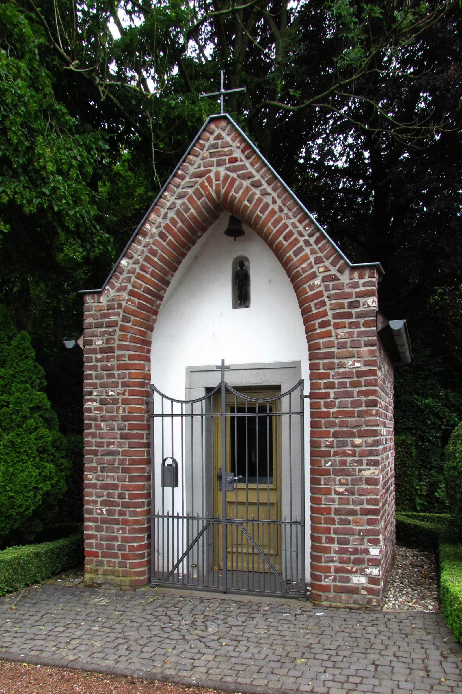 This is a photograph of an architectural monument.It is on the list of cultural monuments of Korschenbroich